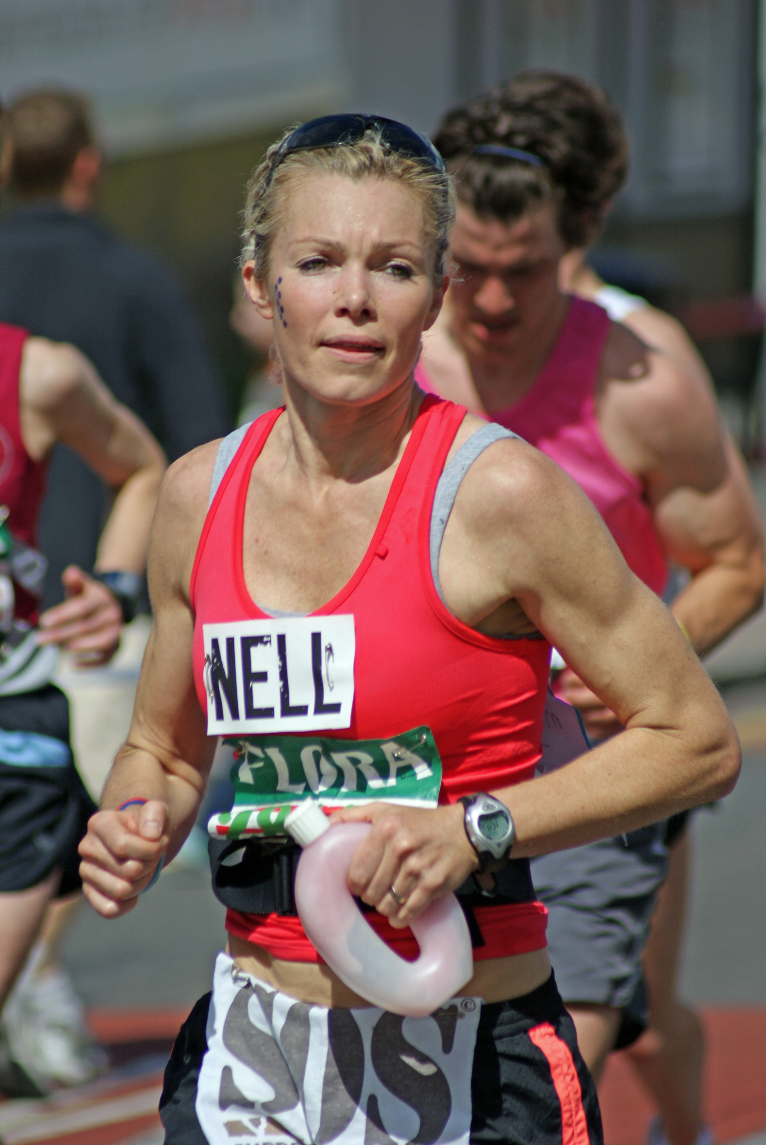 Nell McAndrew running the London Marathon 26.04.09 (90)